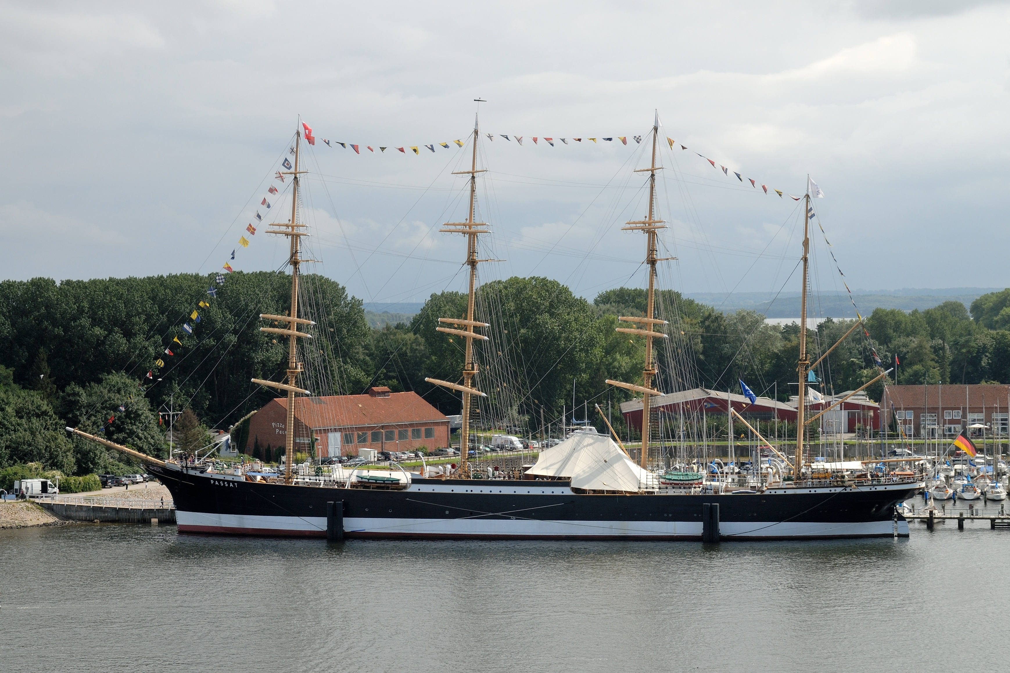 Four masted steel barque, museum ship at Travemünde (Germany)